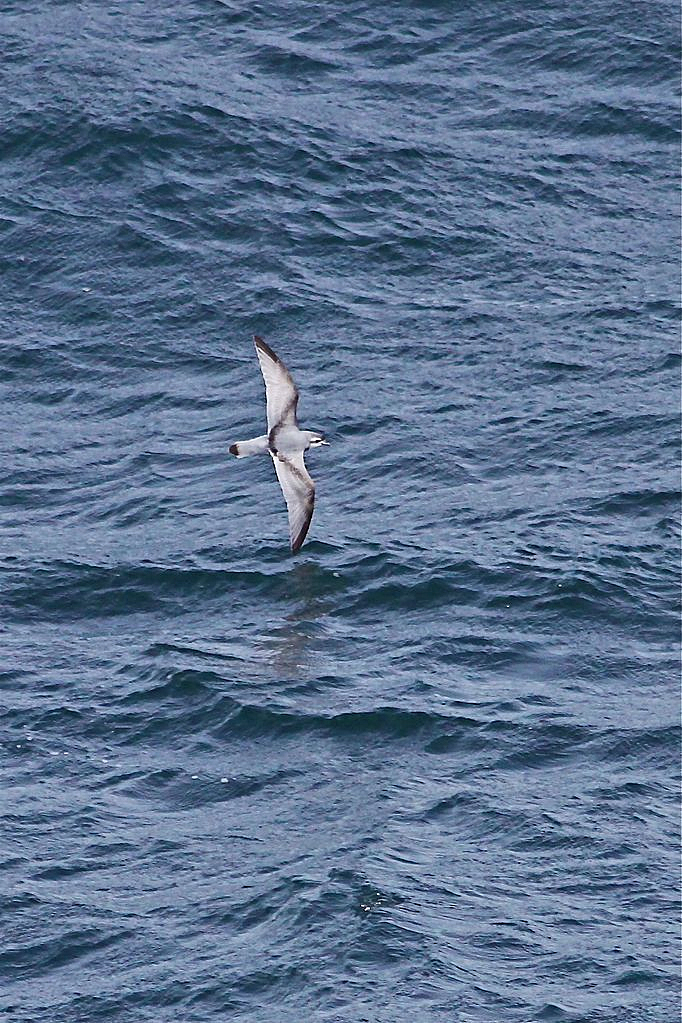 Slender-billed prion, north-west of Falkland Islands